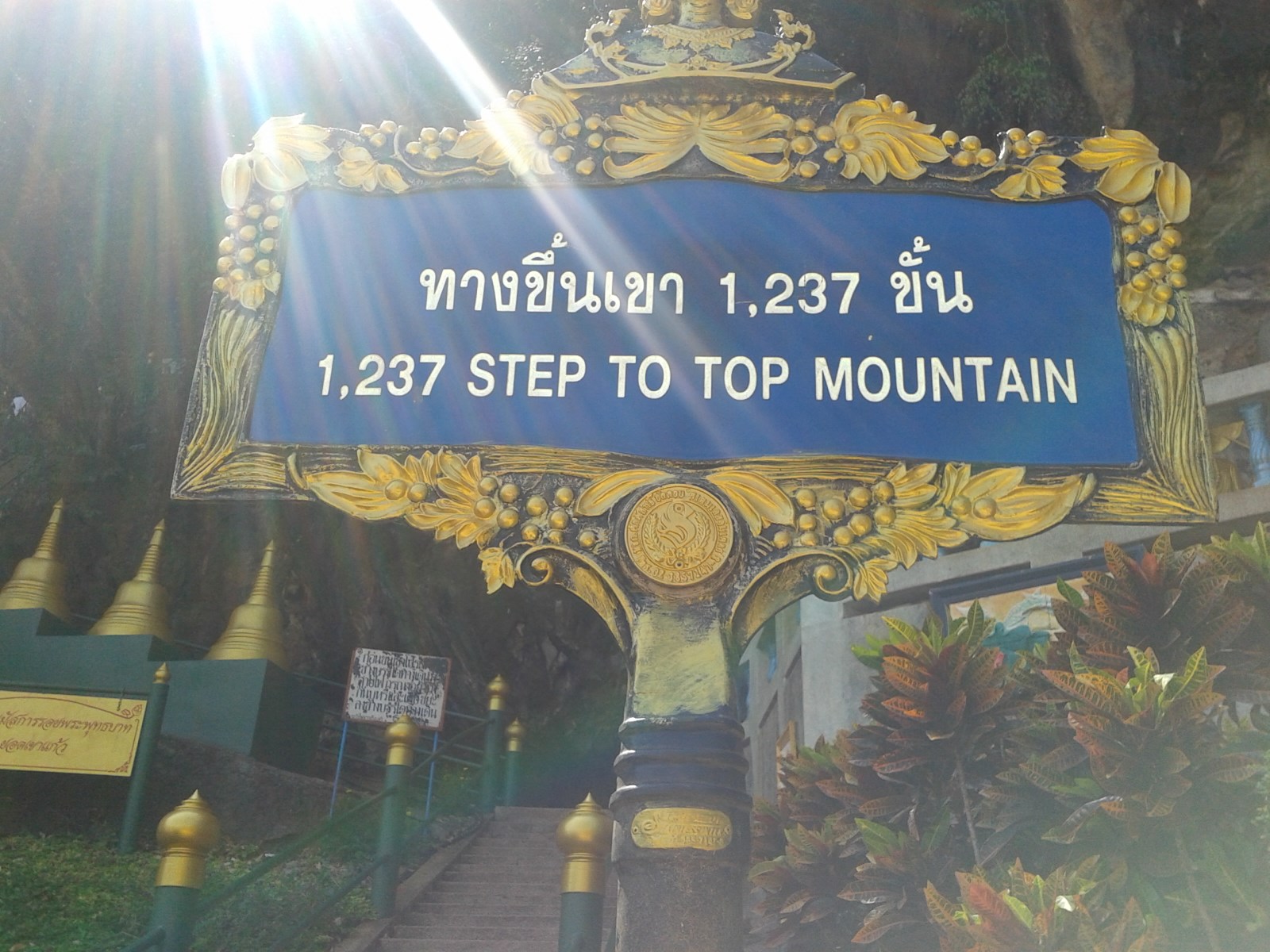 Sign at Wat Tham Suea, Krabi, Thailand, indicating the number of steps on the stairway to the mountaintop.